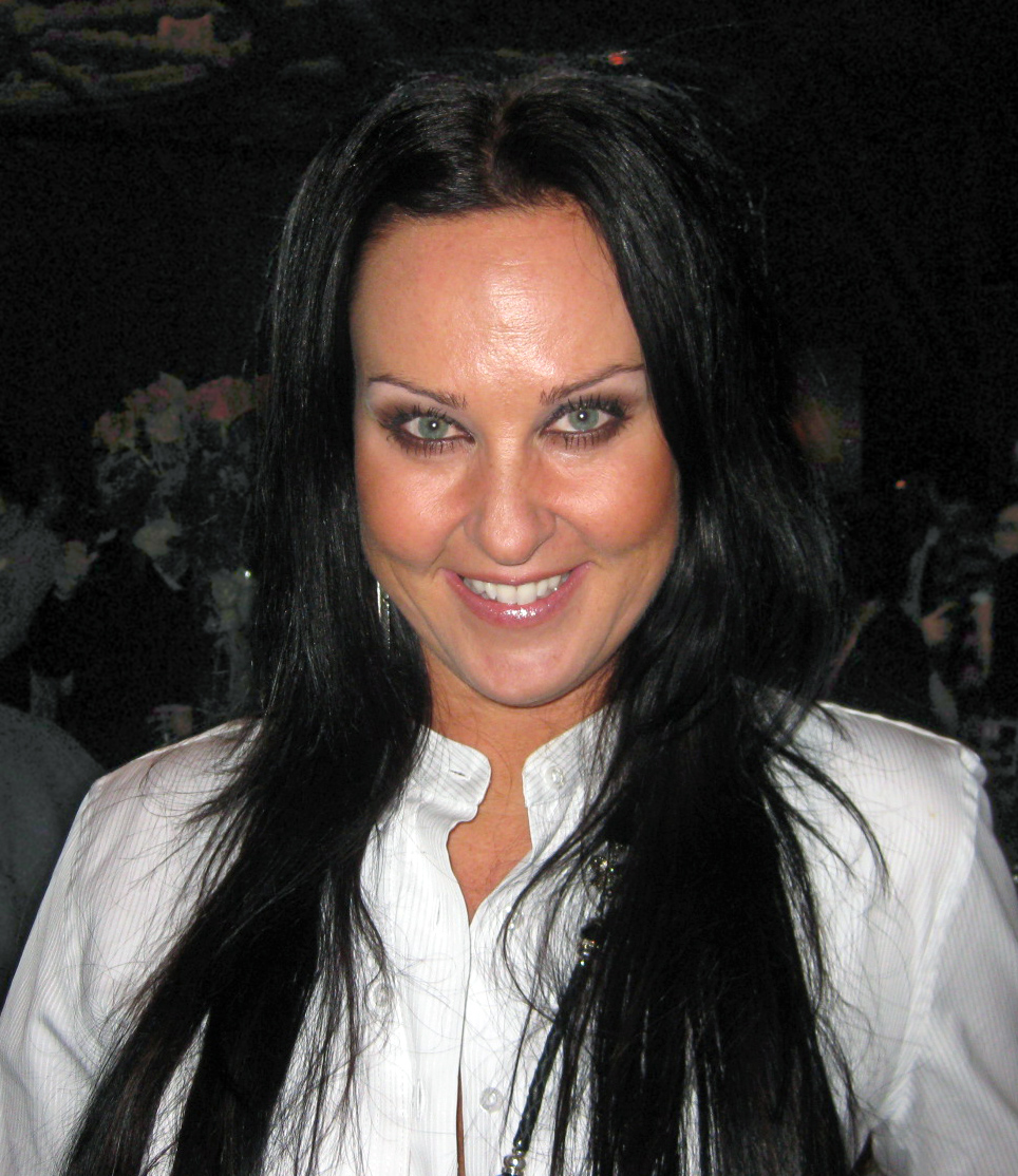 Nina Söderquist at the welcome party in Gothenburg during Melodifestivalen 2009.